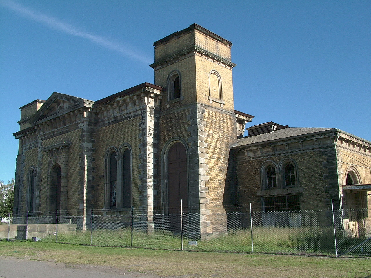 The disused shell of Carrington's Hydraulic Power Station